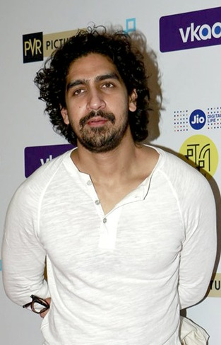 premiere of Moonlight at the Jio MAMI Film Club